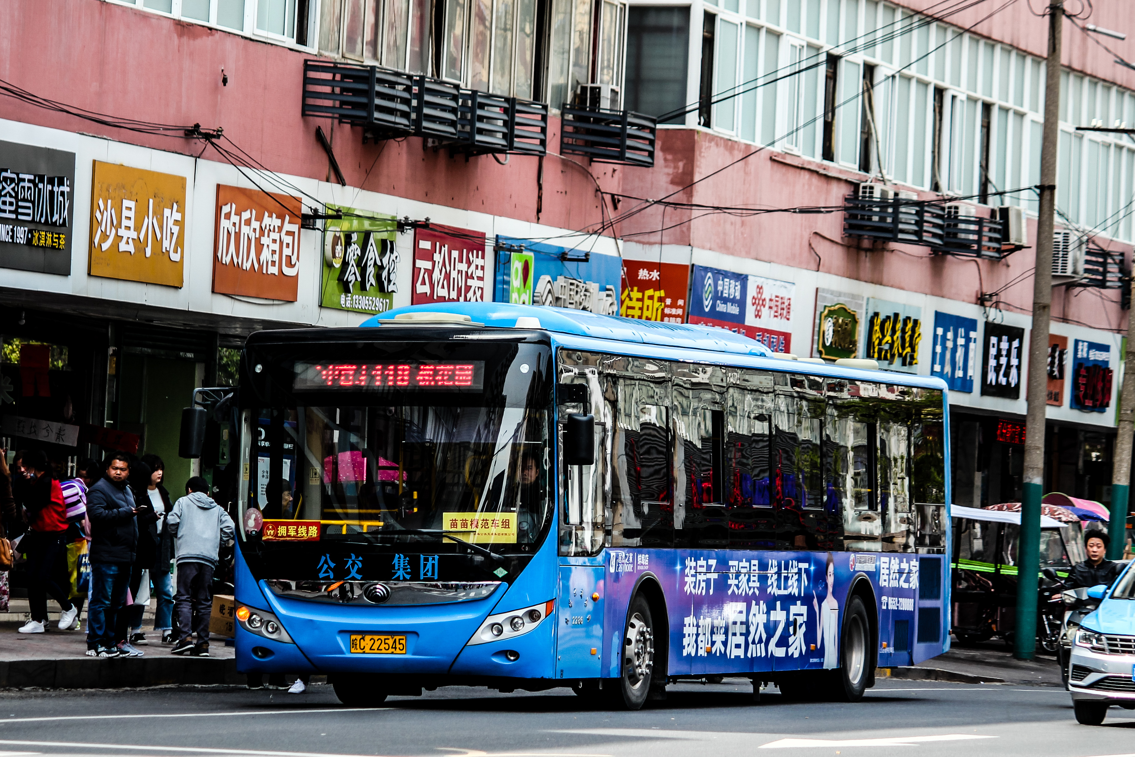 Bengbu Bus No.118 with Yutong Hybrid Bus.